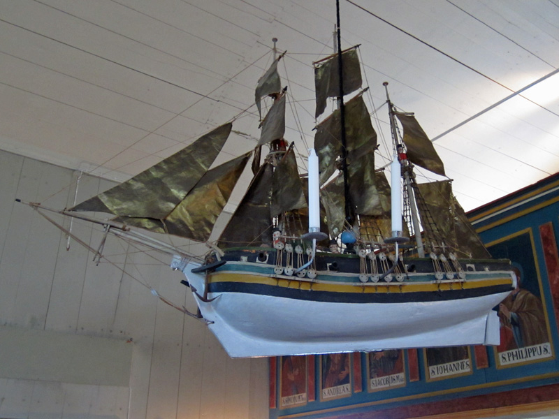 Ship in St Andreas church in Lumparland, Finland